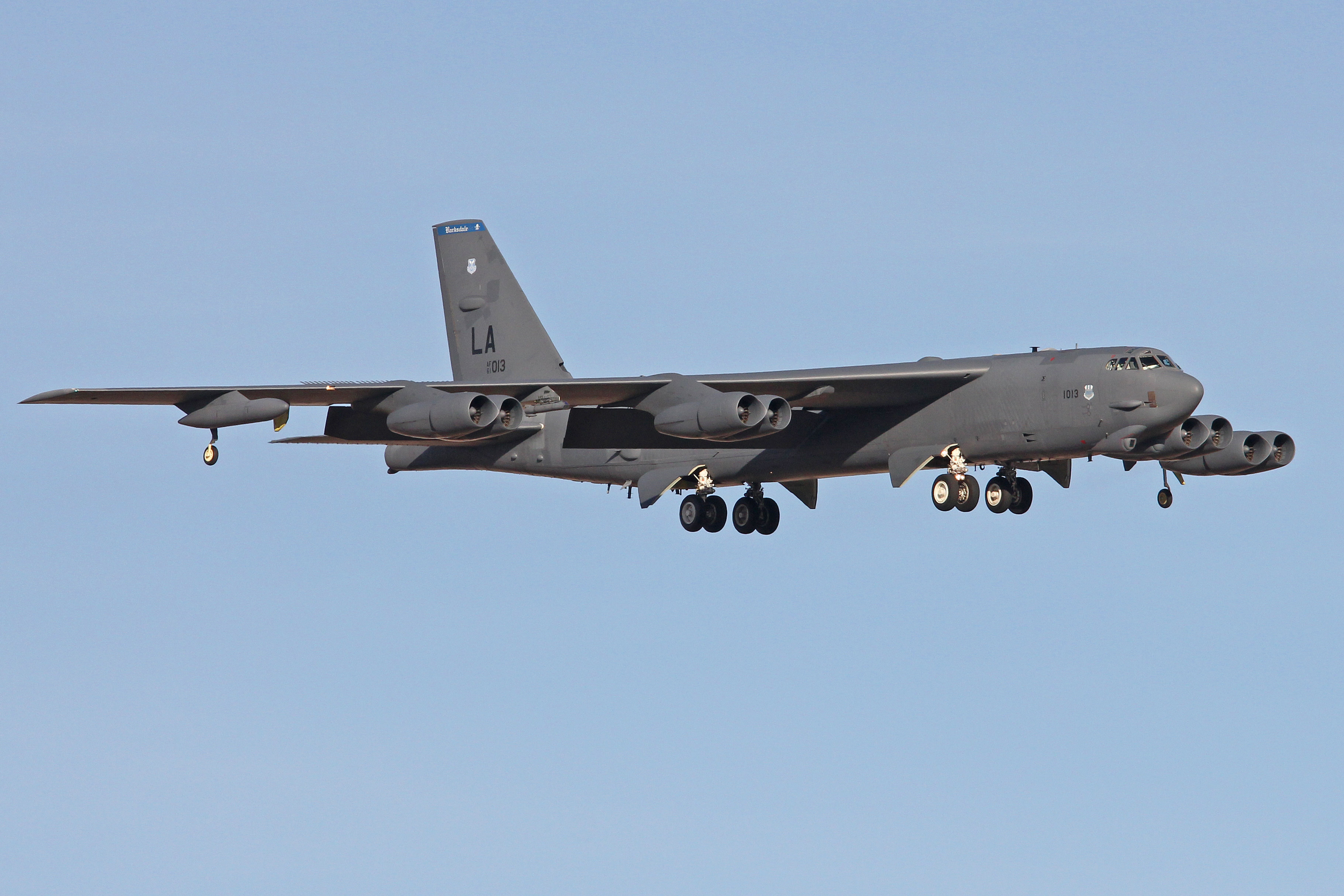 c/n 464440. Full US military serial 61-0013. Operated by the 2nd Bombardment Wing based at Barksdale AFB, LA. Returning from a mission as part of Red Flag 16-2. Nellis AFB, NV, USA. 2nd March 2016